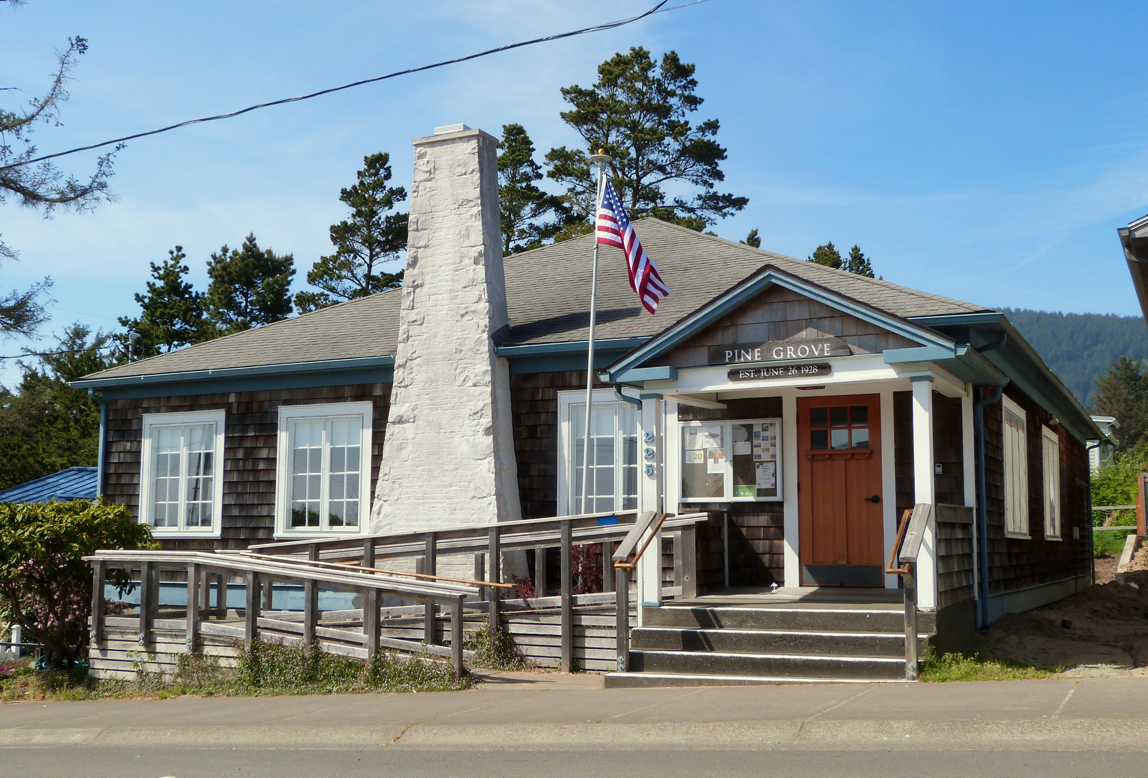 The historic Pine Grove Community House (built 1928), located at 225 Landeda Avenue in Manzanita, Oregon, United States, is listed on the U.S. National Register of Historic Places.